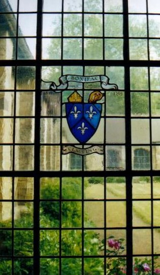 Cloister of a convent, now part of the University, heraldic glass possibly from the 18th or early 19th century